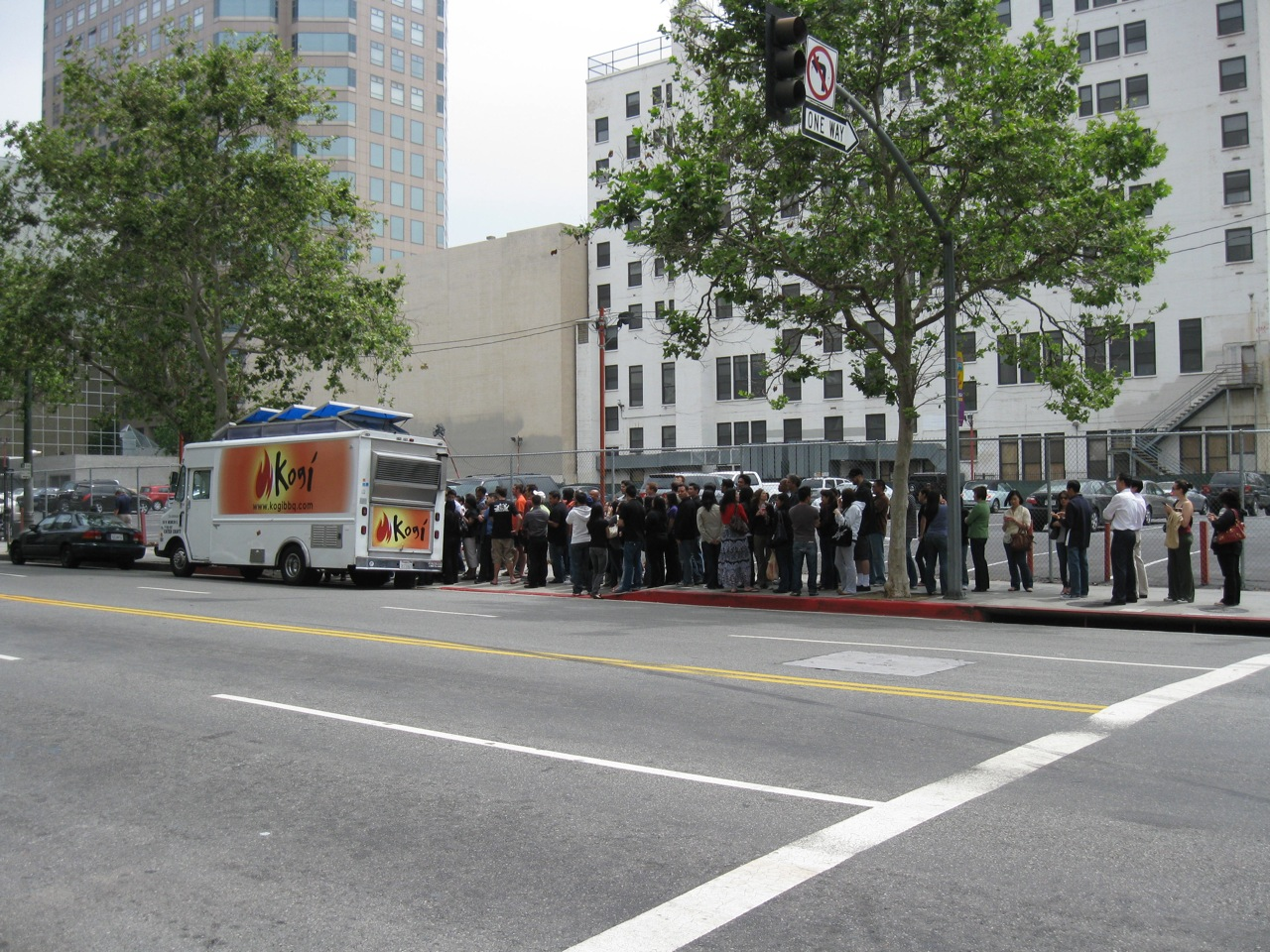 a long line for the Kogi Korean BBQ truck in Los Angeles, California